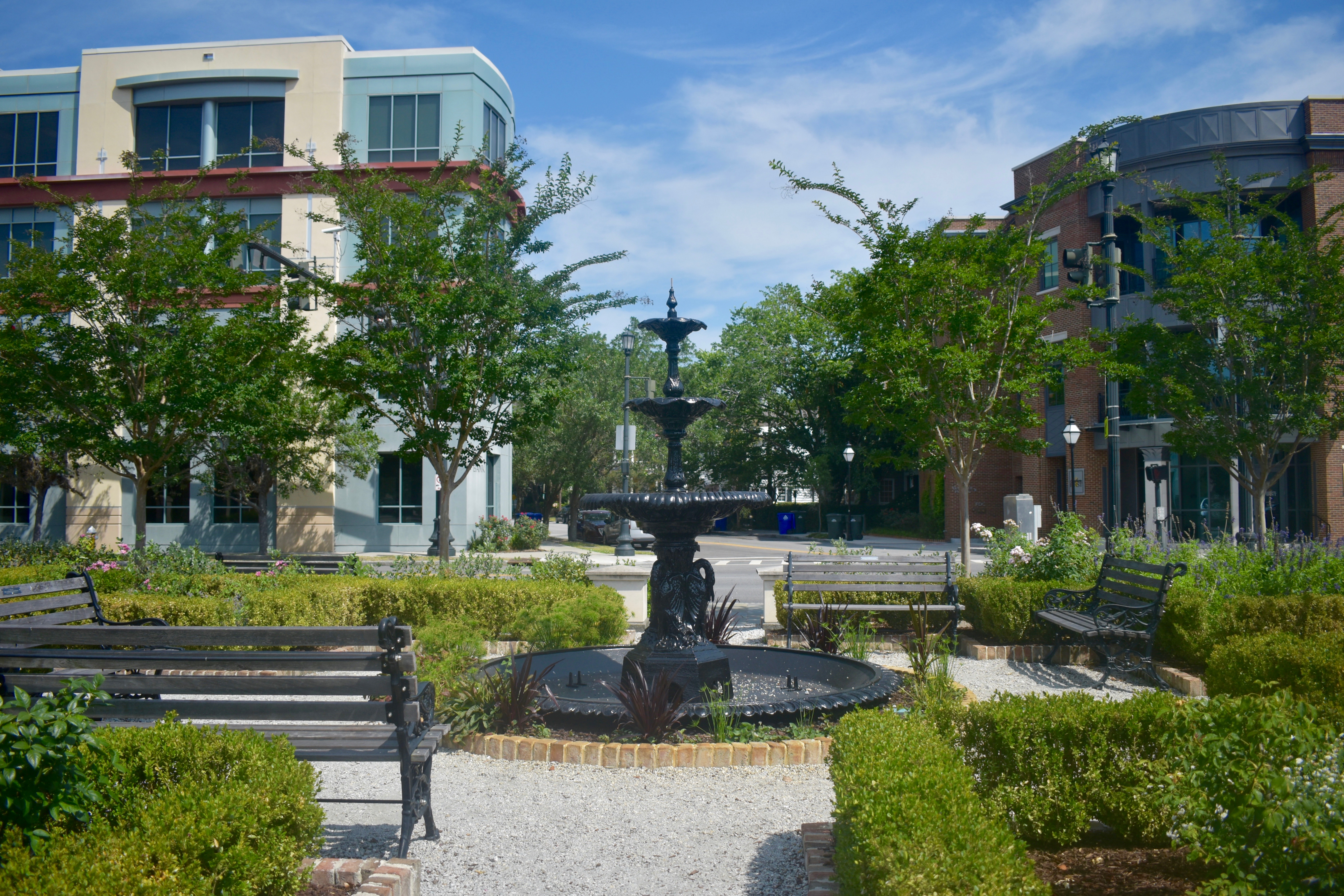 The Noisette Garden fountain and benches alongside Calhoun St. in Charleston, SC.